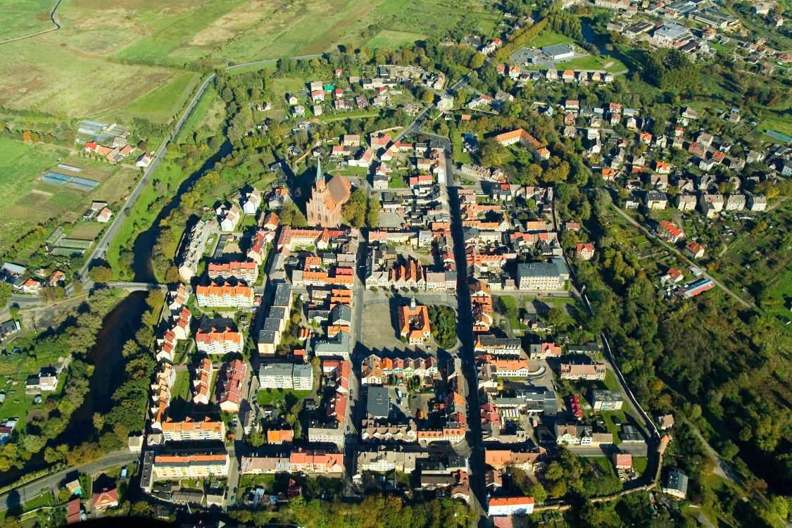 Bird's-eye view on Old Town of Trzebiatów city in Poland.